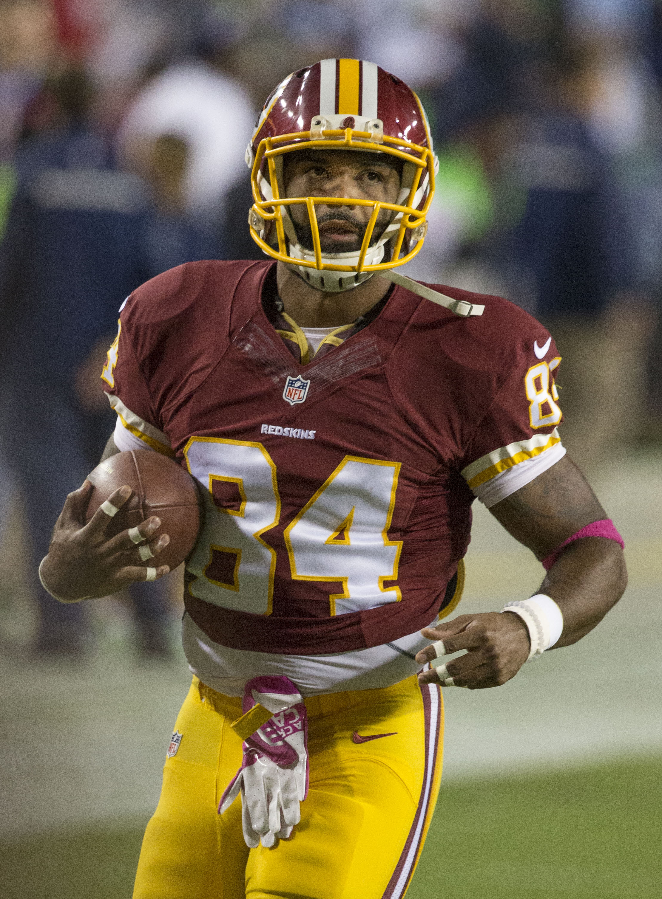 Washington Redskins tight end, Niles Paul, in a game against the Seattle Seahawks on October 6, 2014